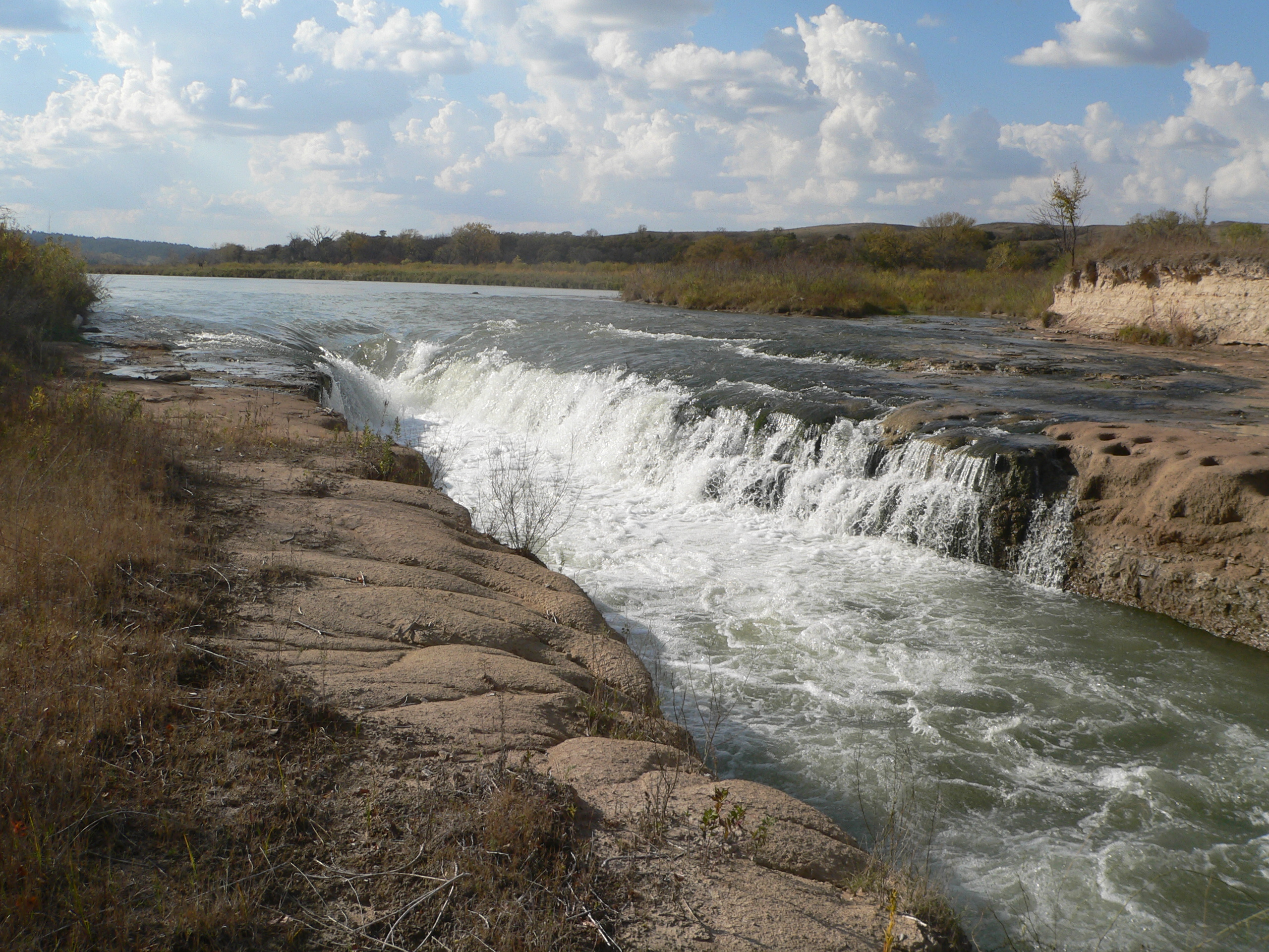 Norden Chute, on the Niobrara River on the boundary between Brown County, Nebraska and Keya Paha County, Nebraska. The photo was taken from the south (Brown County) bank, facing generally west (upstream).